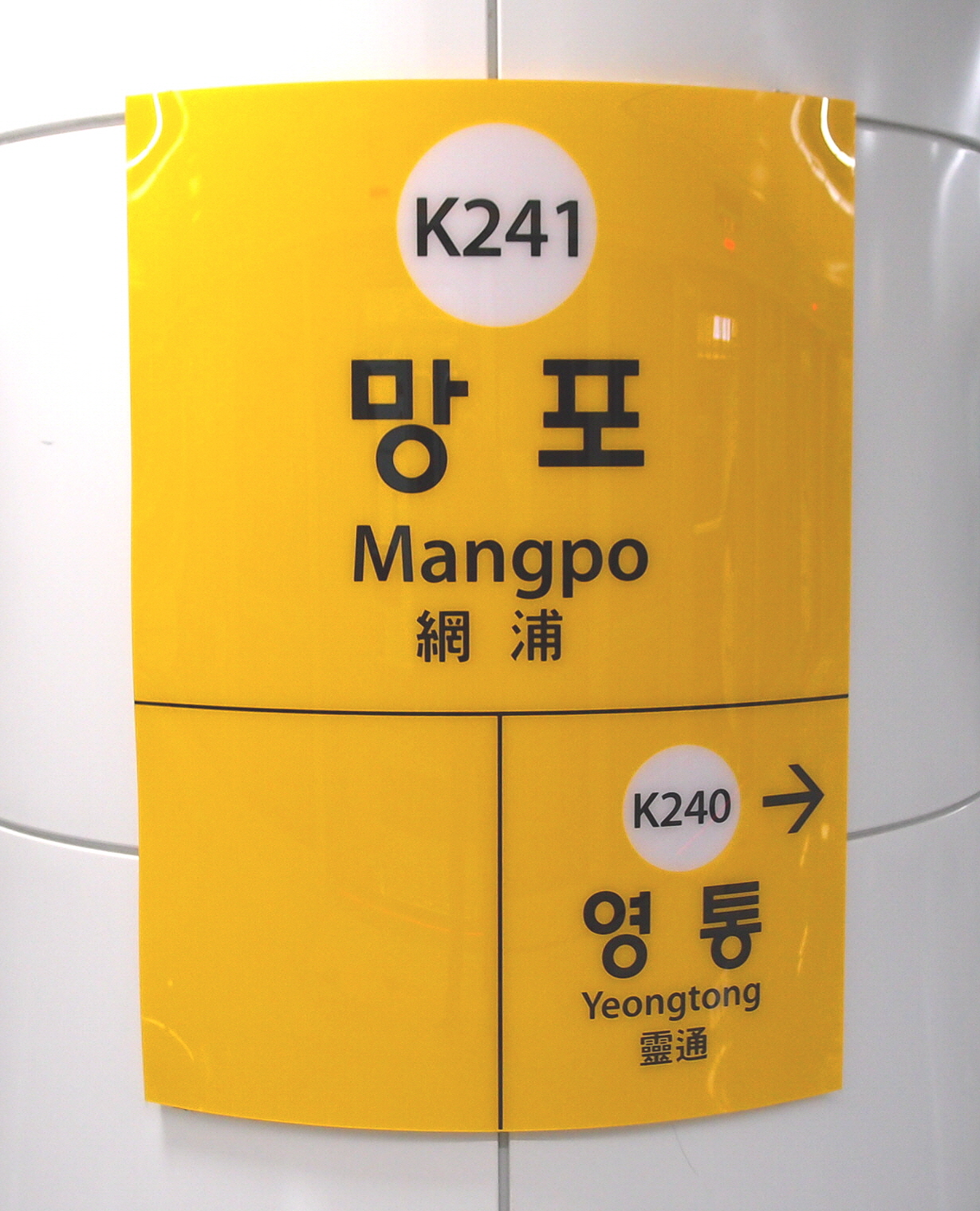 K241 Mangpo station